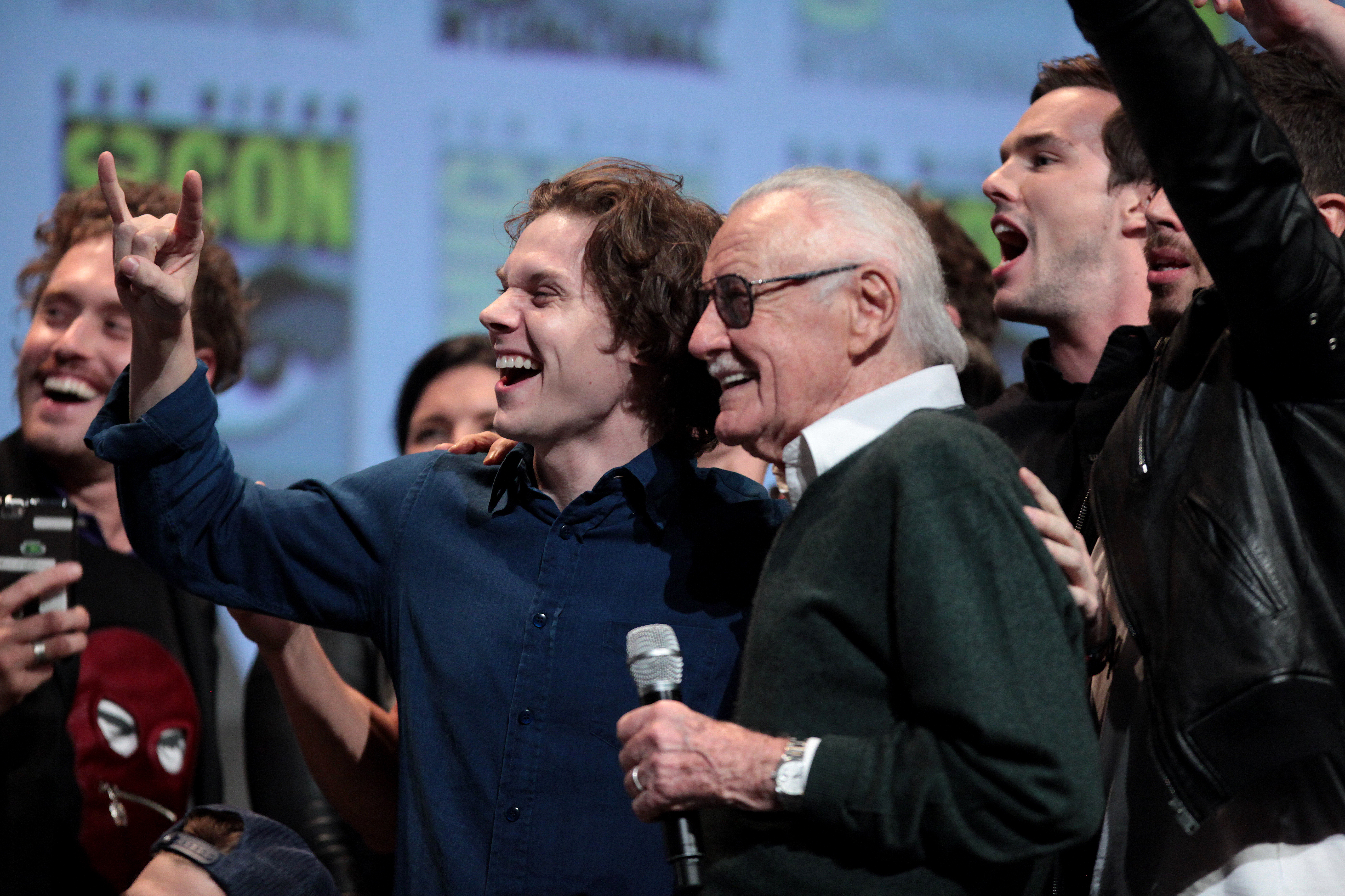 T. J. Miller, Evan Peters, Stan Lee and Nicholas Hoult speaking at the 2015 San Diego Comic Con International at the San Diego Convention Center in San Diego, California.